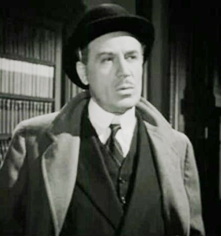 Dennis Hoey in Sherlock Holmes and the Secret Weapon - cropped screenshot